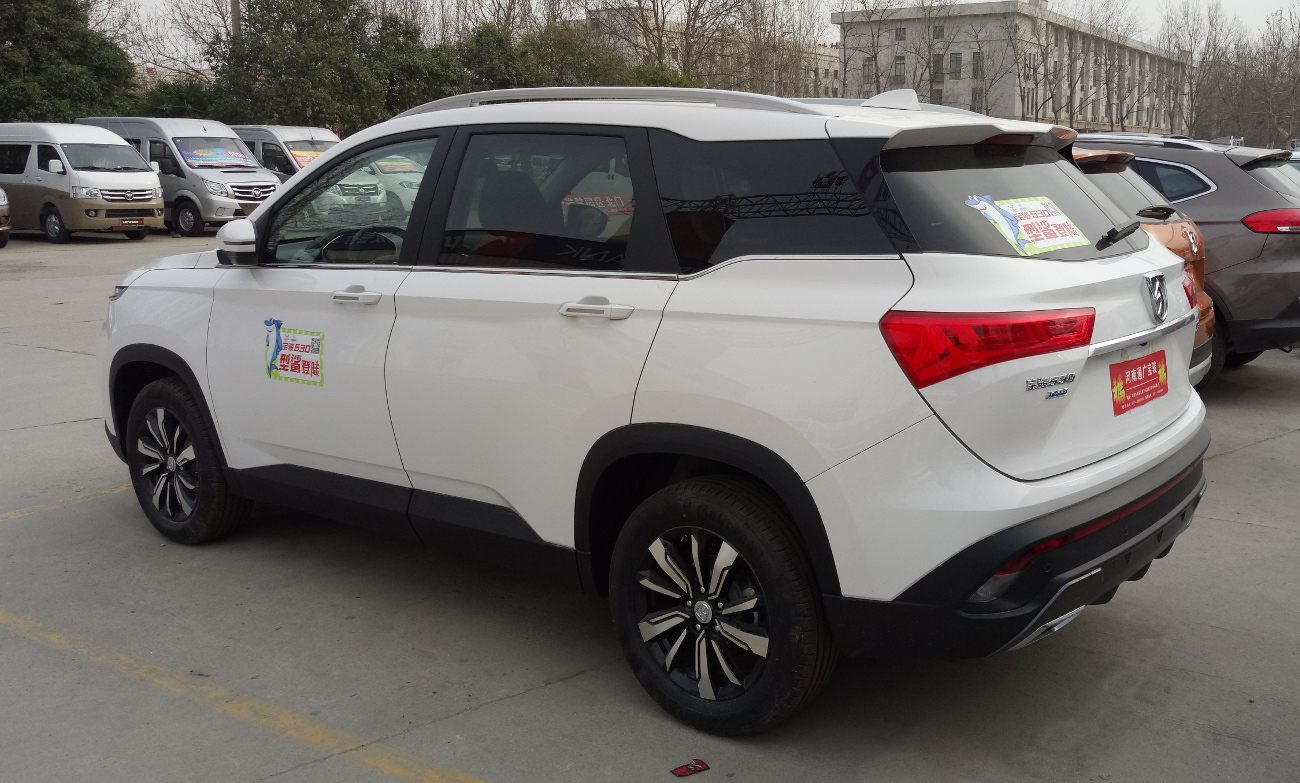 Baojun 530 photographed in Zhengzhou, Henan province, China.